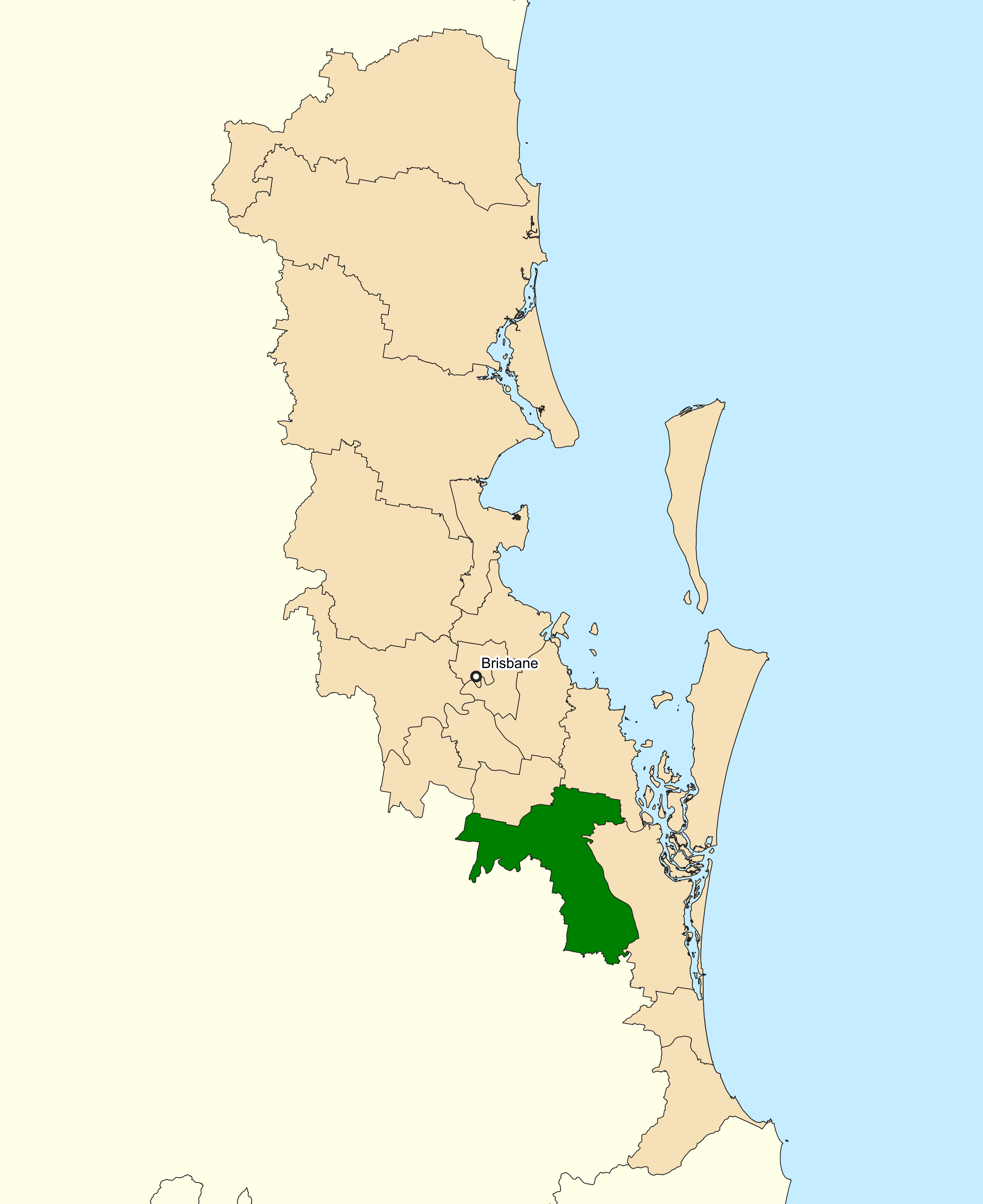 Location of the Australian federal electoral division of Forde (dark green) in Greater Brisbane, Queensland as of the 2019 Australian federal election. Incorporates or developed using Administrative Boundaries ©PSMA Australia Limited licensed by the Commonwealth of Australia under Creative Commons Attribution 4.0 International licence (CC BY 4.0).